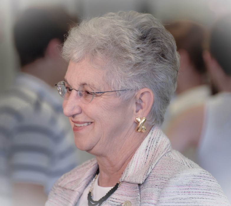 Virginia Foxx Greets Constituents in Yadkinville, NC